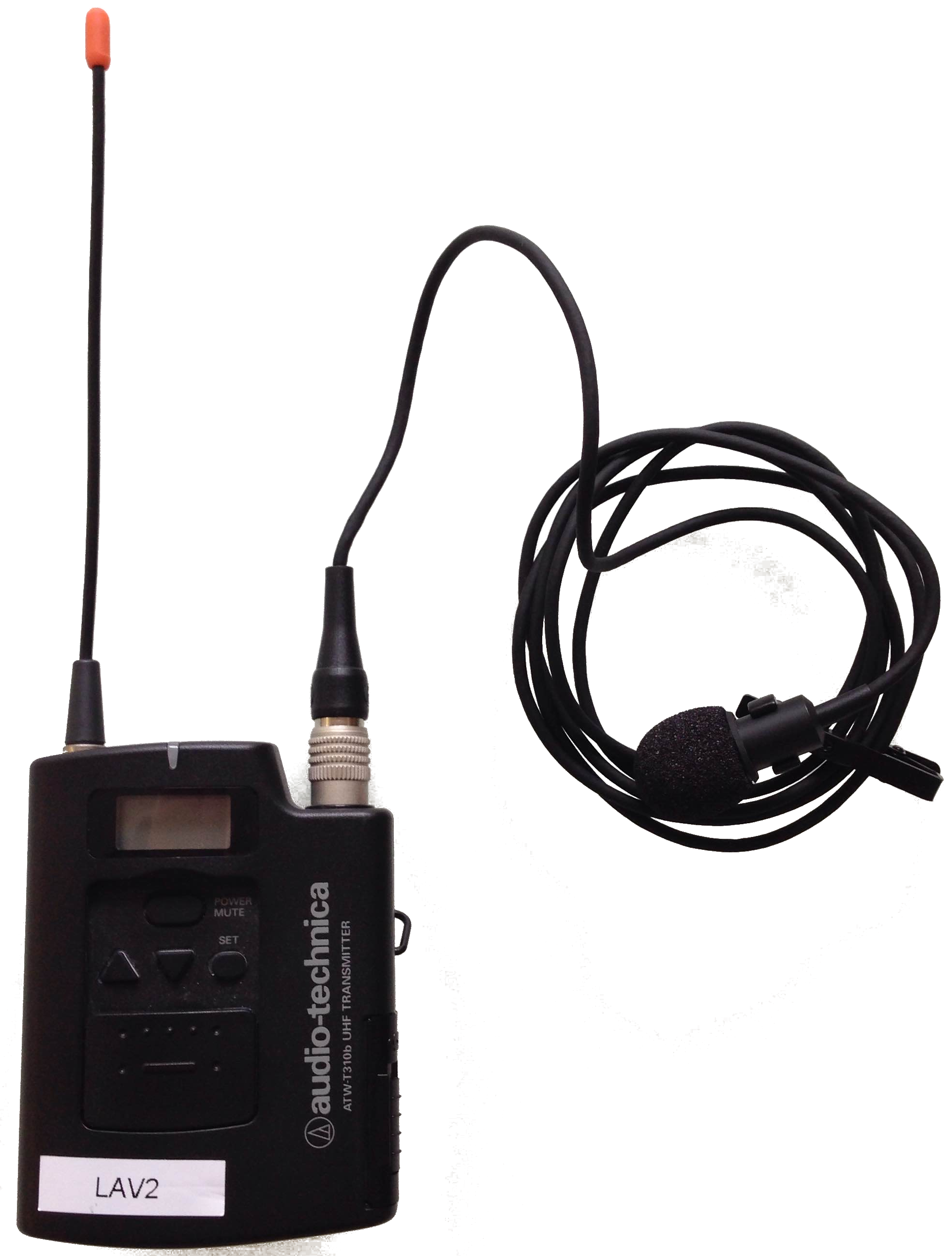 Audio Technica Lavalier Microphone